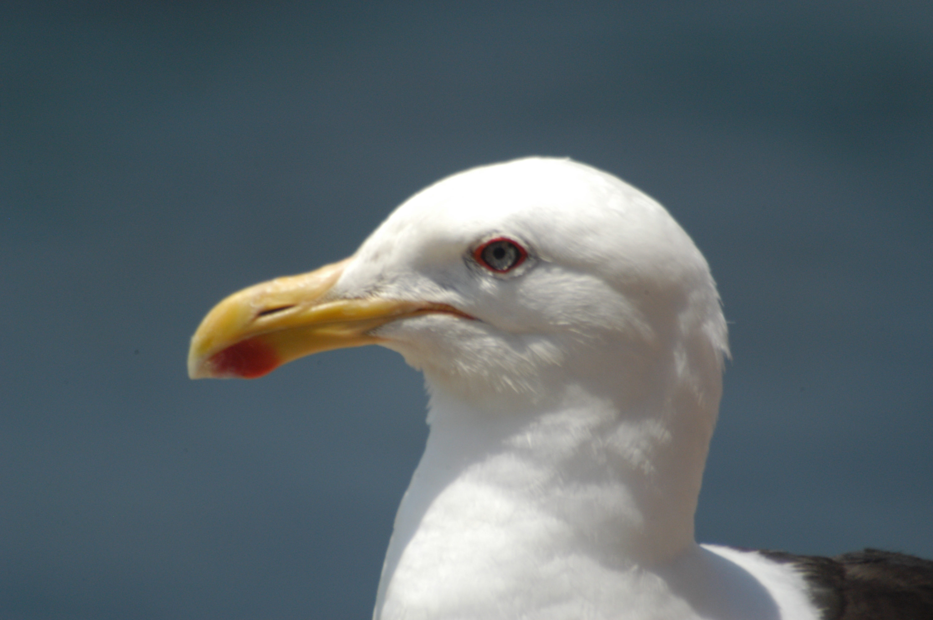 Author Gonzalo Vasquez, taken at Con Con, Chile